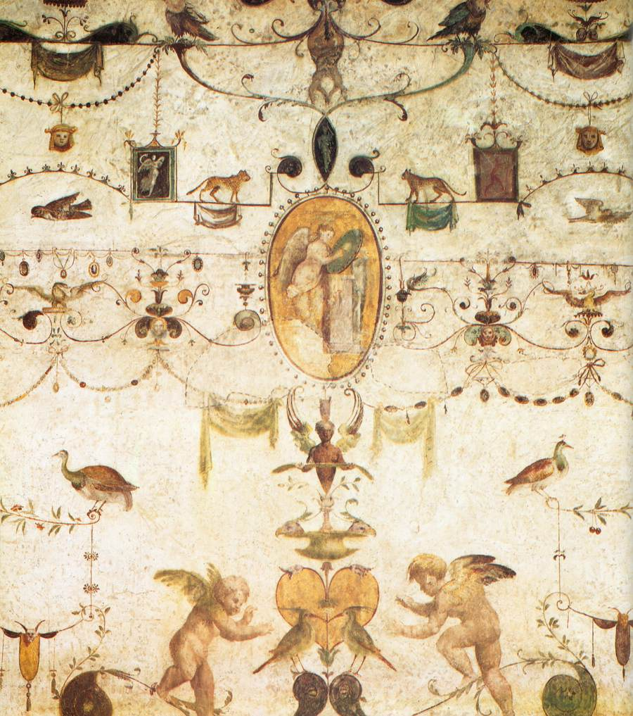 Decoration of Cardinal Bibbiena's Loggetta